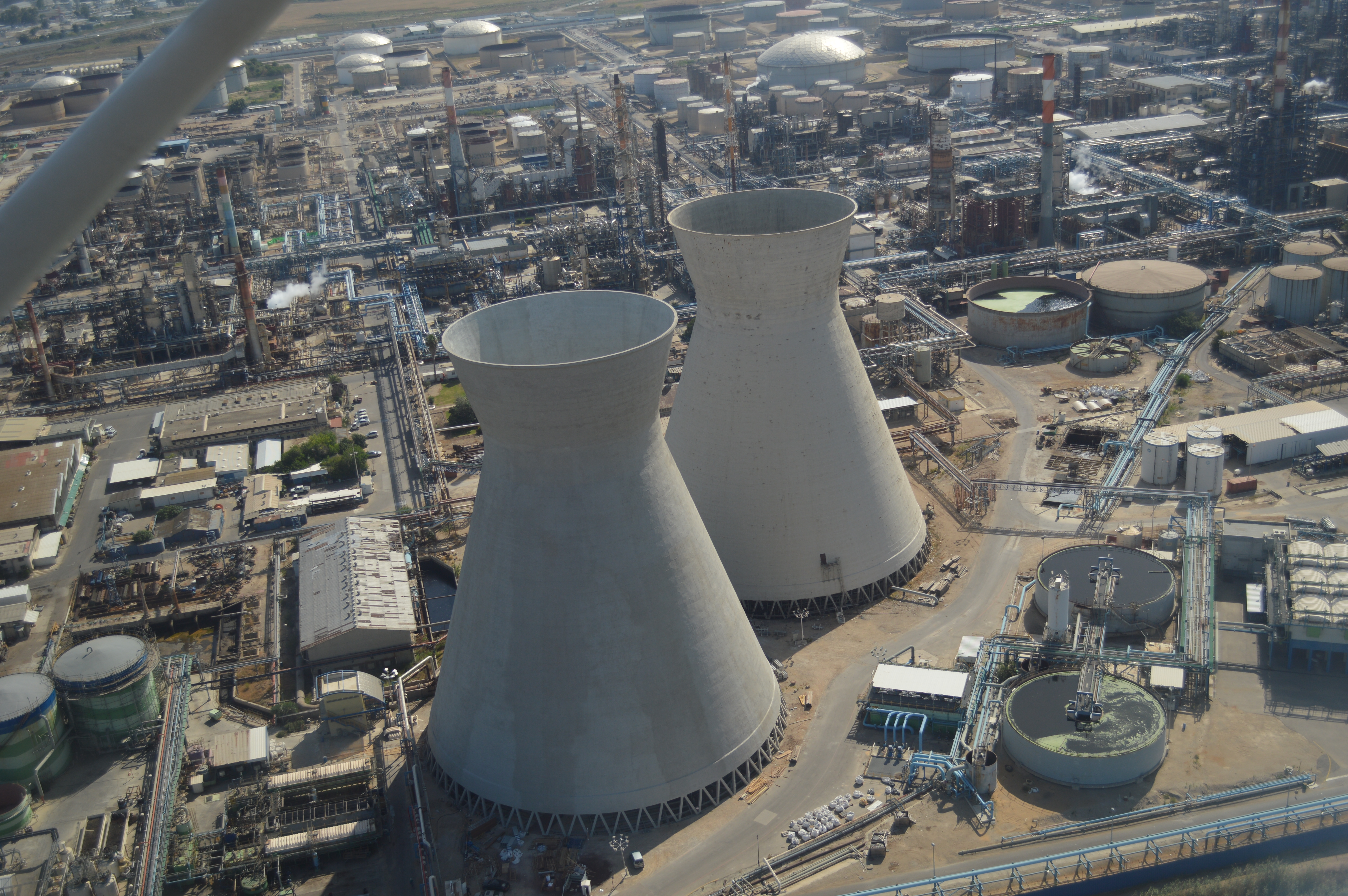 Aerial View of Haifa oil refineries